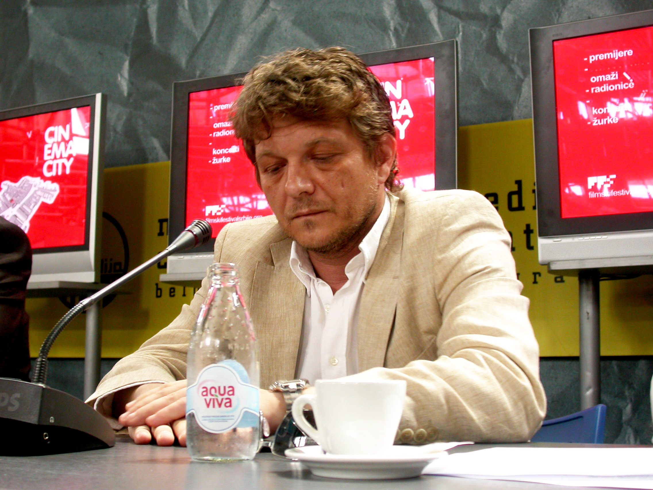 Dragan Bjelogrlić